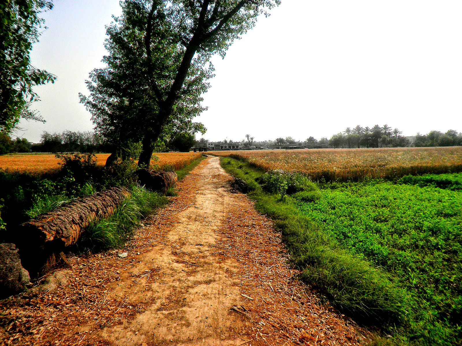 Ibrahim Villege To Main Cantt Road